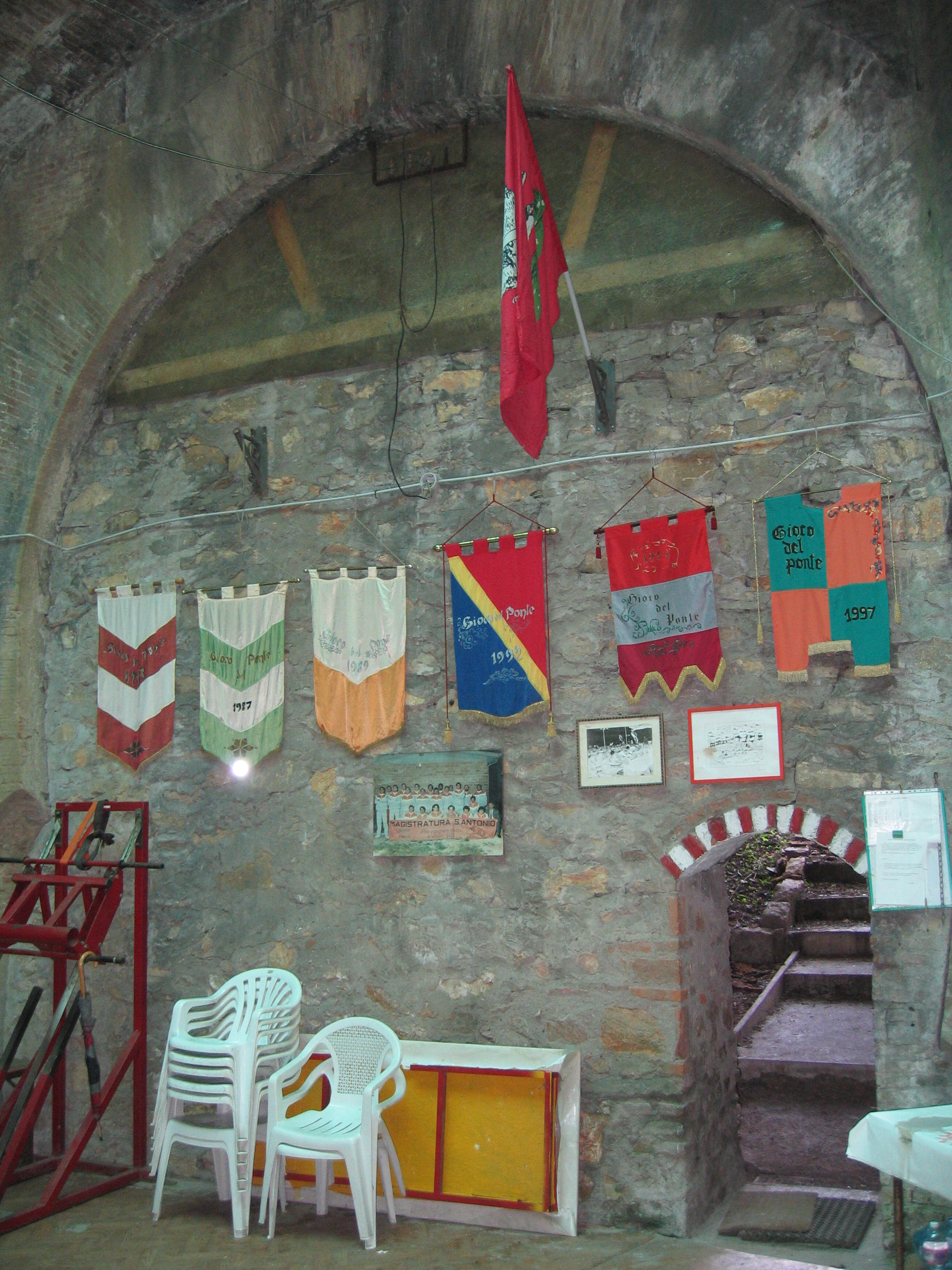 The area inside of the Stampace stronghold